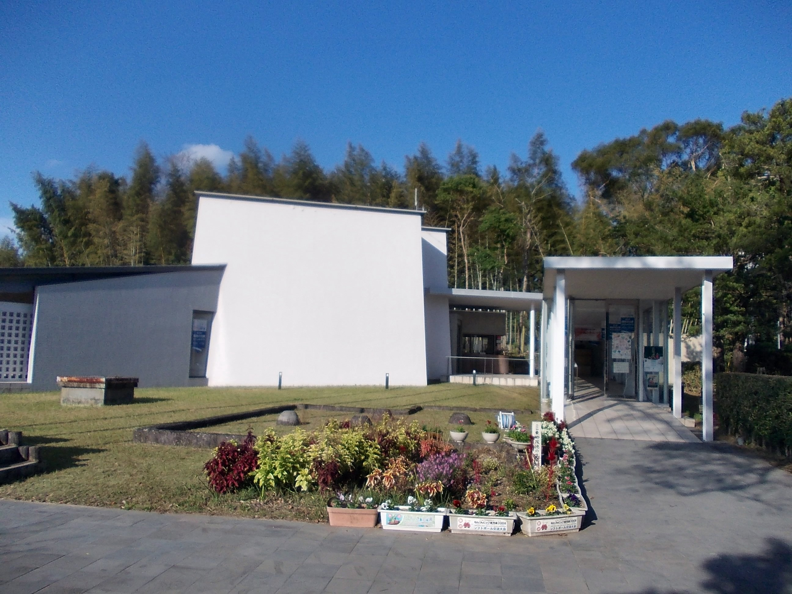 Miyama Community Center and Shigenori Tōgō Memorial Hall, Hioki, Kagoshima, Japan. Shigenori Tōgō, used to be foreign minister of Japan during the World War Two, was born in the former village of Naeshirogawa, now a part of Hioki City, Kagoshima, Japan.